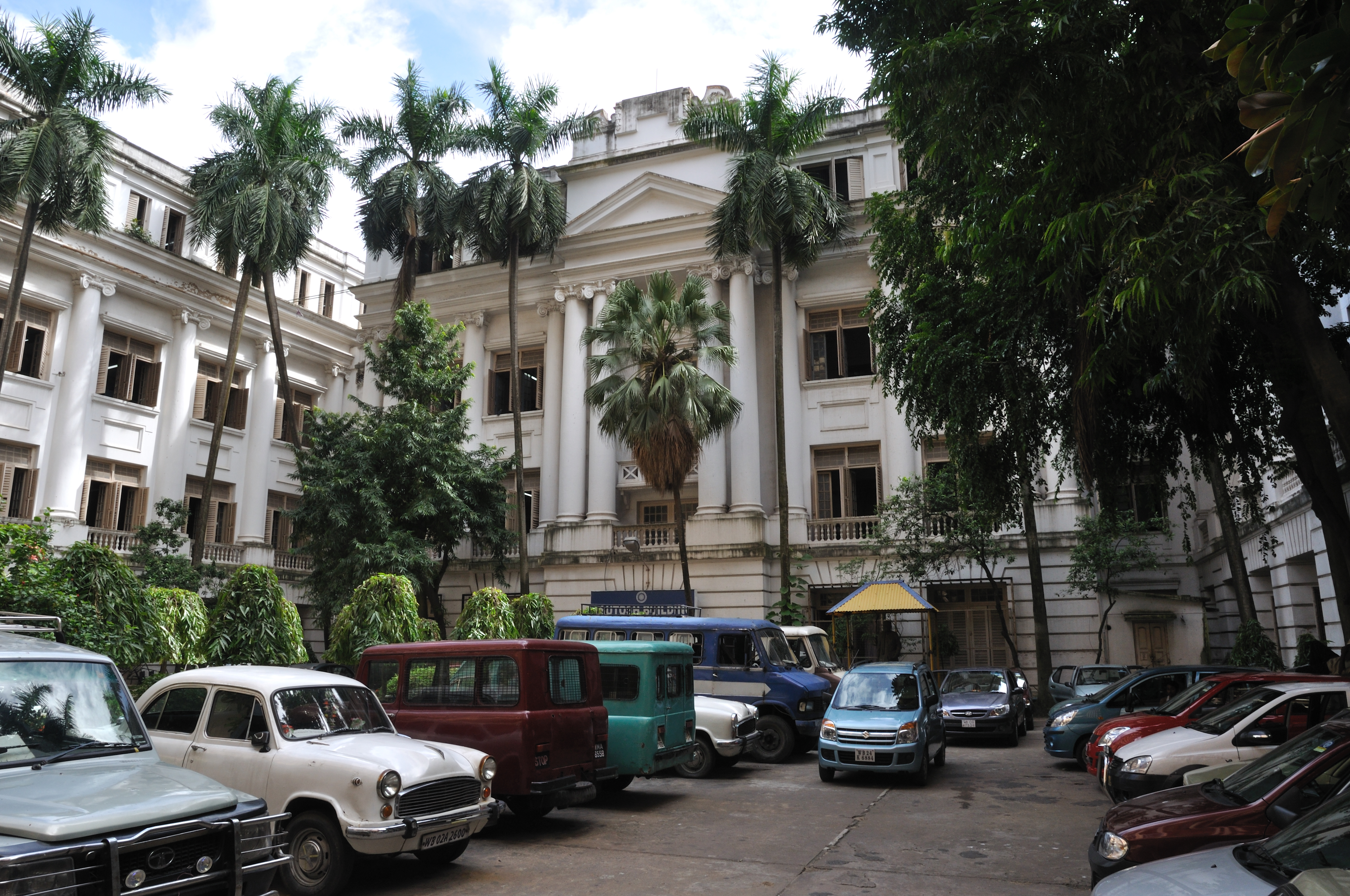 The University of Calcutta (also known as Calcutta University) is a public university located in the city of Kolkata (previously Calcutta), India.